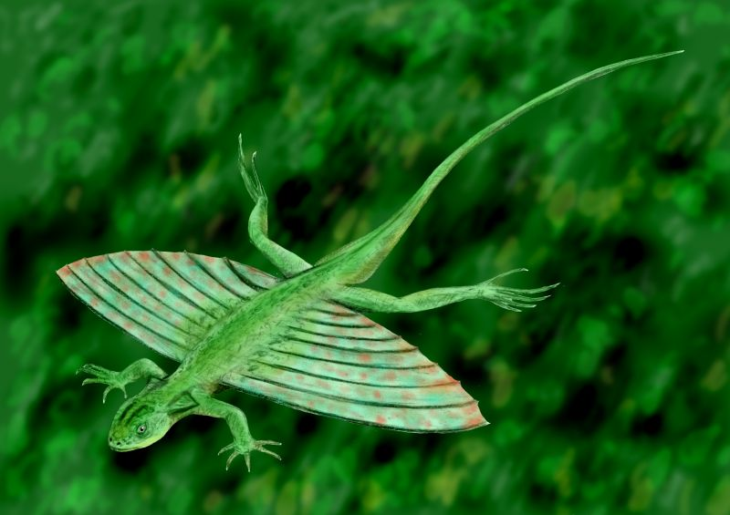 Xianglong zhaoi, a gliding lizard from the Early Cretaceous of China, pencil drawing, digital coloring